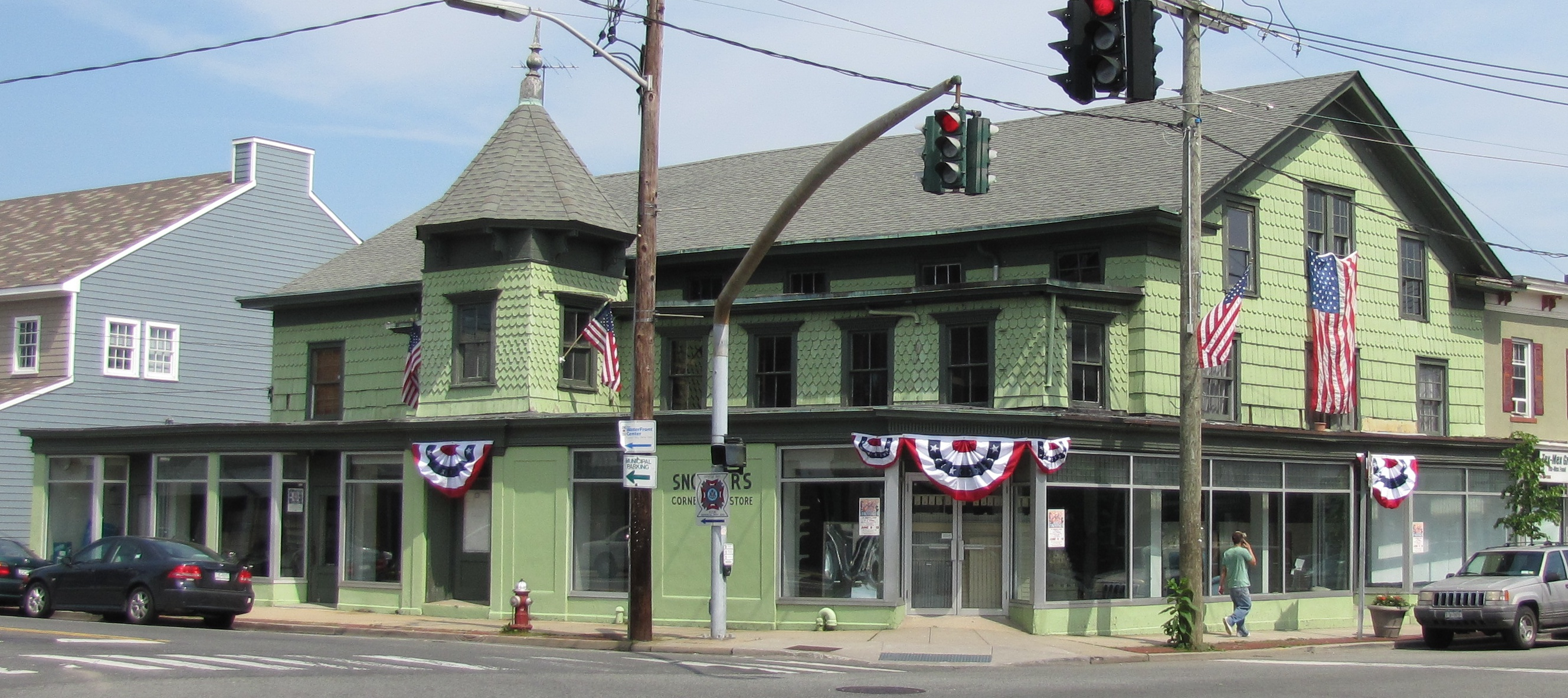 Snouder's Corner Drug Store, Oyster Bay, NY 11771